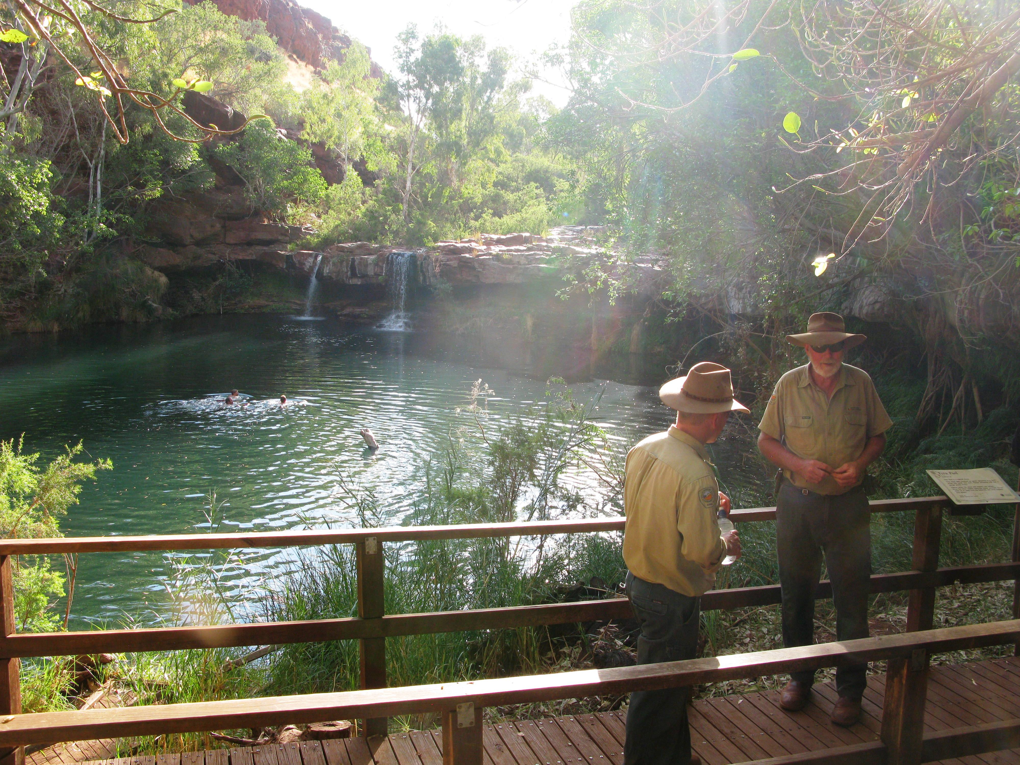 Western Australia Department of Environment and Conservatin National Park Rangers at Fern Pool, Karijini National Park, Pilbara in September 2012